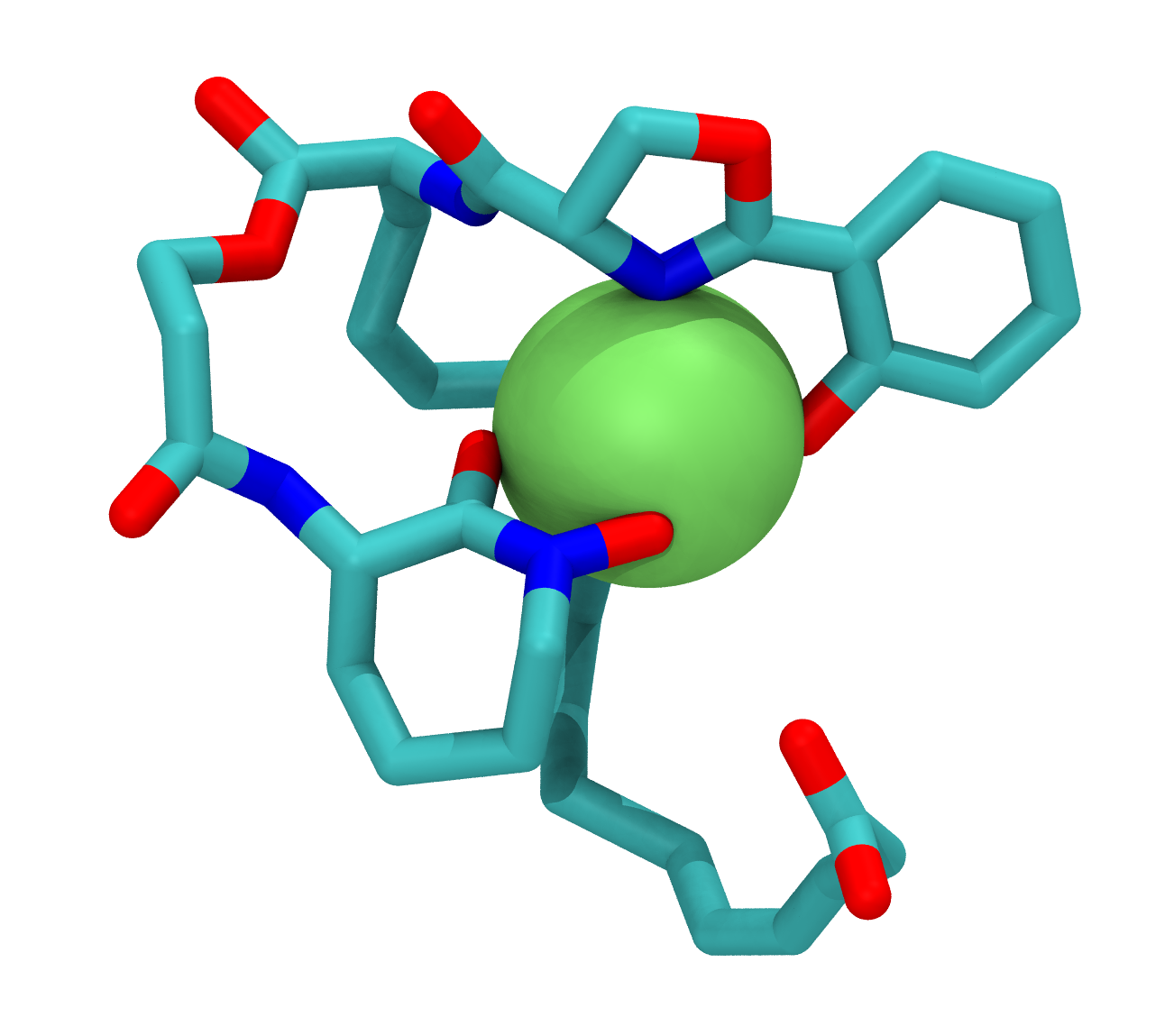 stick model of carboxymycobactin T carrying an Fe3+ ion, after PDB 1x8u. Ref.: Holmes MA, Paulsene W, Jide X, Ratledge C, Strong RK (January 2005). "Siderocalin (Lcn 2) also binds carboxymycobactins, potentially defending against mycobacterial infections through iron sequestration". Structure 13 (1): 29–41. PMID 15642259. This image was created with VMD